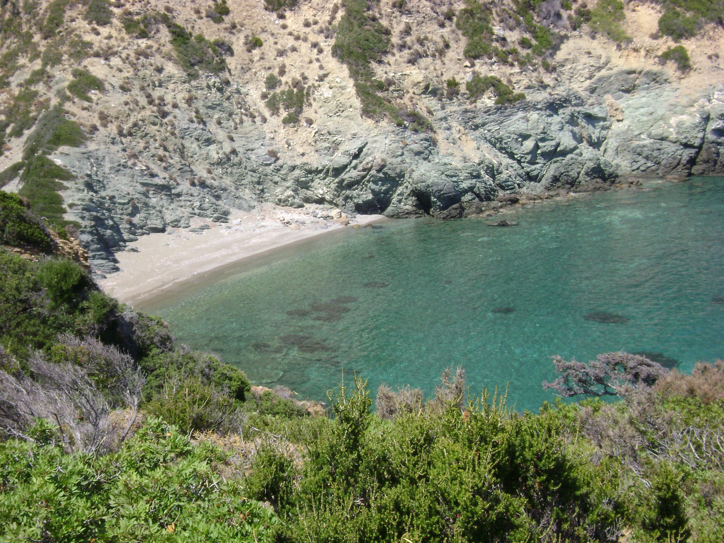 This is a photography of Natura 2000 protected area with ID GR1430005